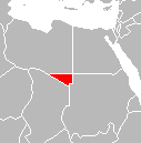 The Sarra Triangle, highlighted in red, and surrounding countries. The Territory is part of Libya.